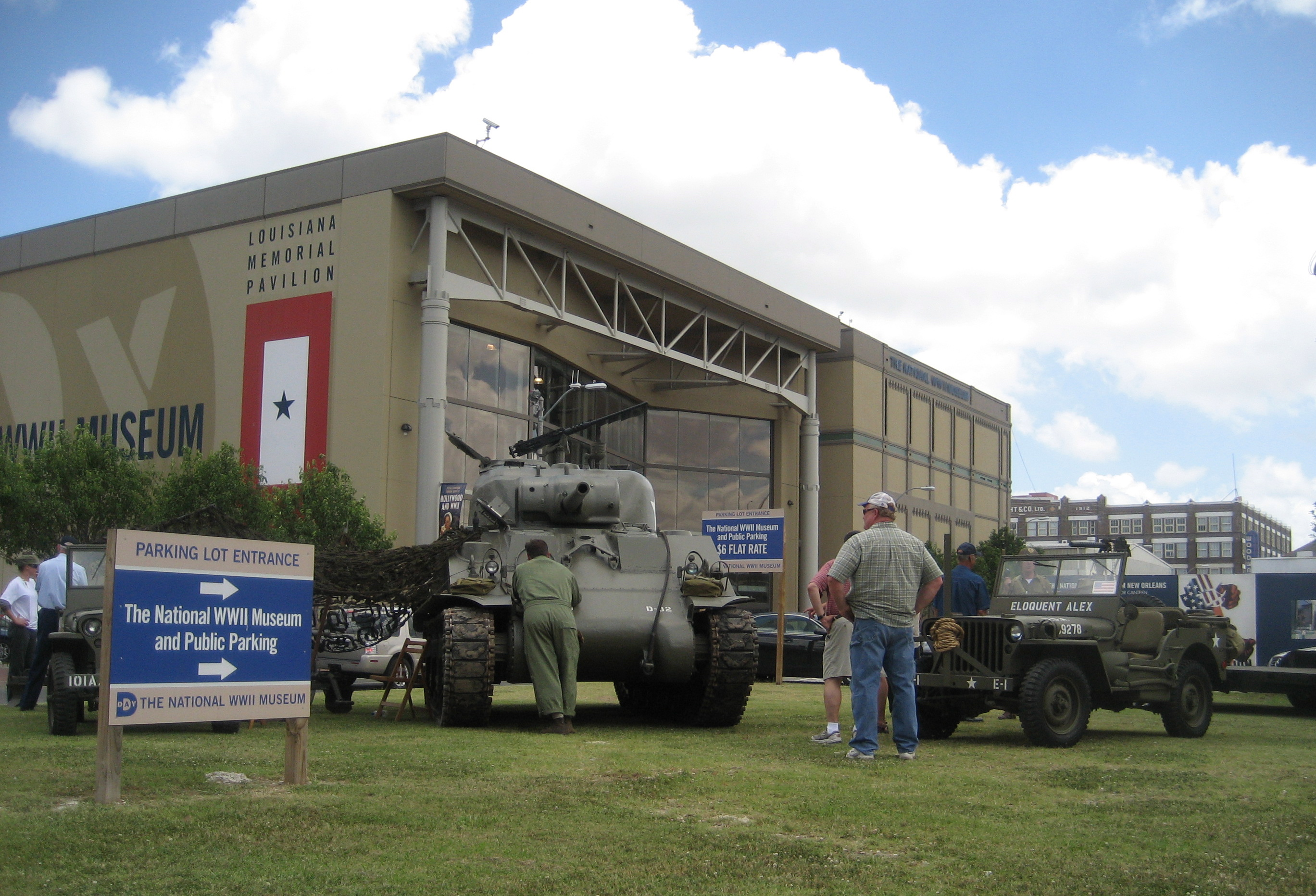 New Orleans: View of exterior of the National World War II Museum, with temporary display of an M4A3E9 Sherman tank and jeeps outside.